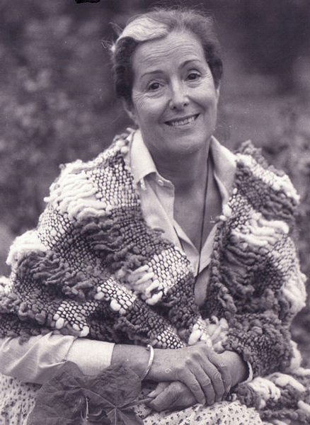 portrait of French actress Denise Bosc around 1980